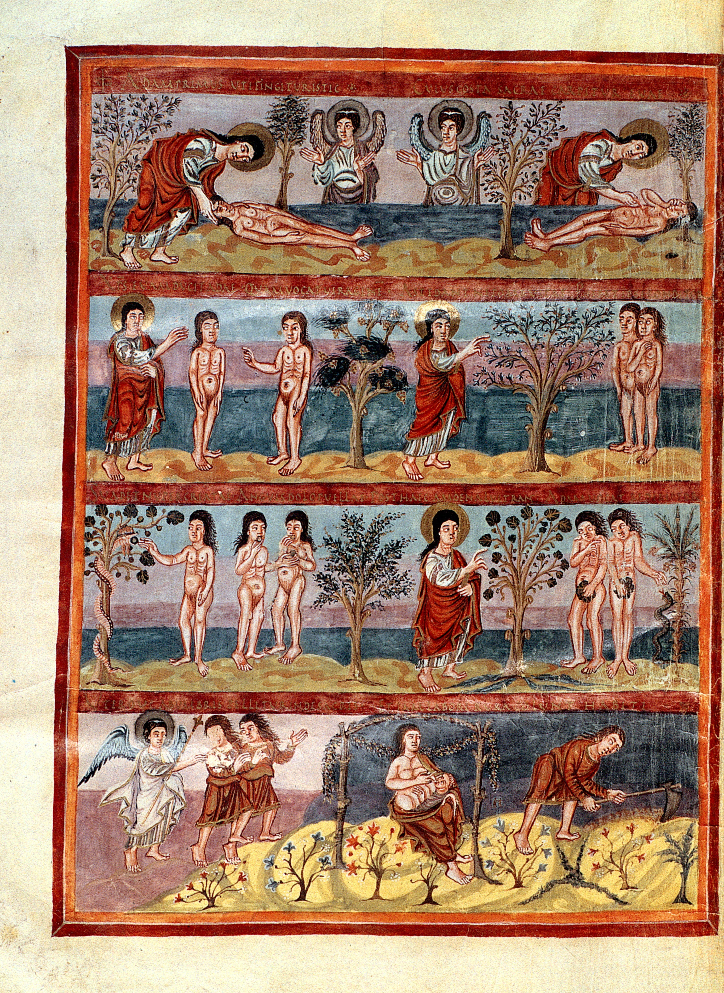 The story of Adam and Eve, Grandval Bible, fol. 5b References: Backhouse: The Illuminated Page, No. 6